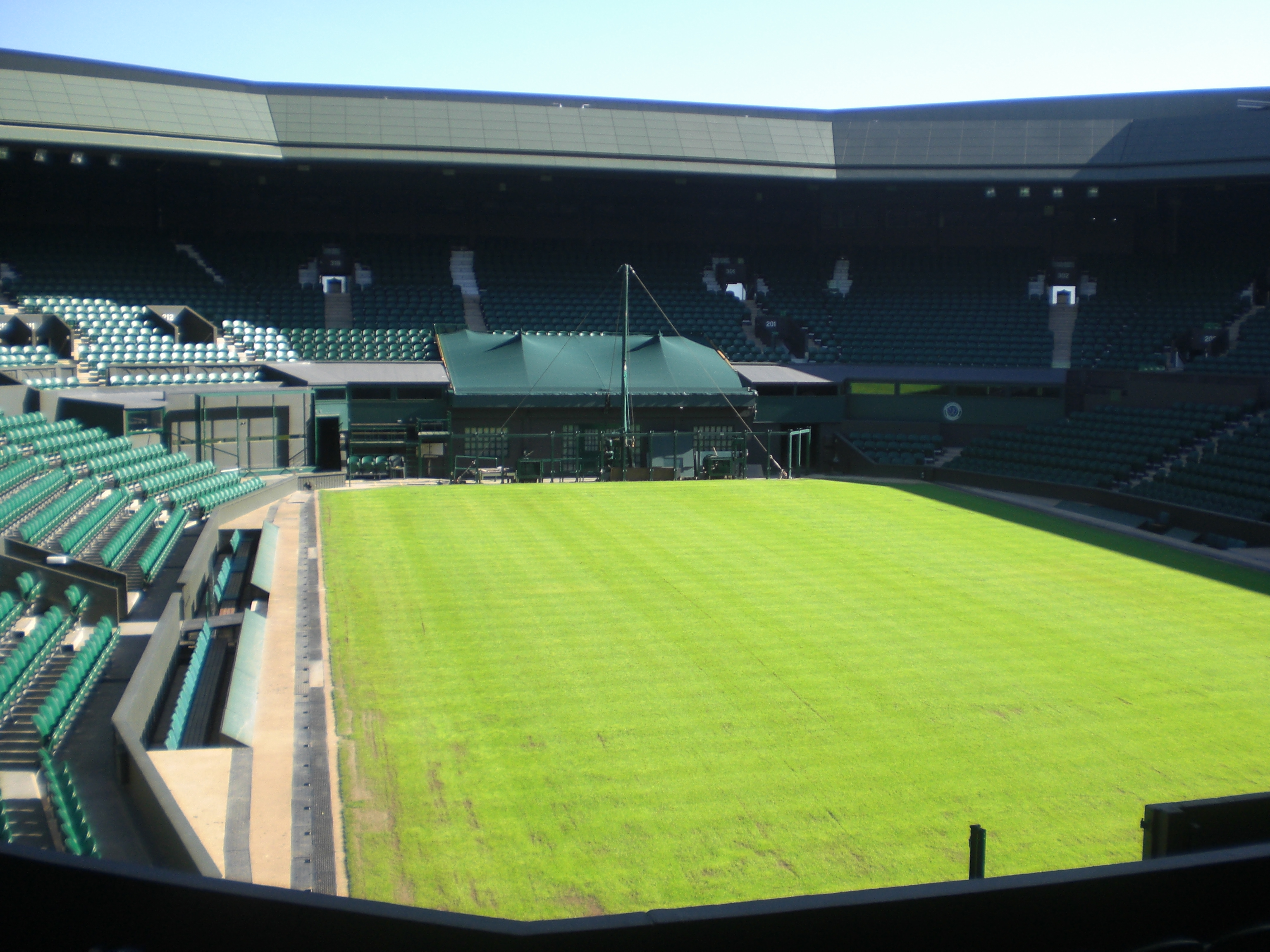 The new Centre Court of Wimbledon